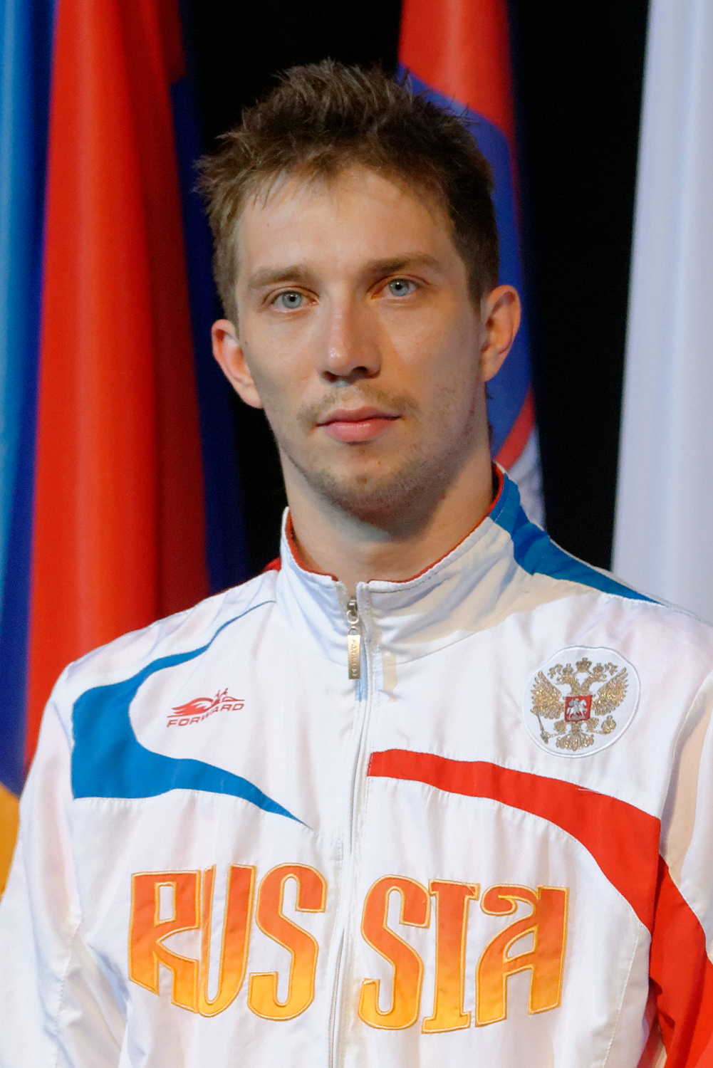 Russia's Aleksey Yakimenko at the award ceremony of the men's team sabre event at the European Fencing Championships at Rhénus Sport in Strasbourg on 14 June 2014.